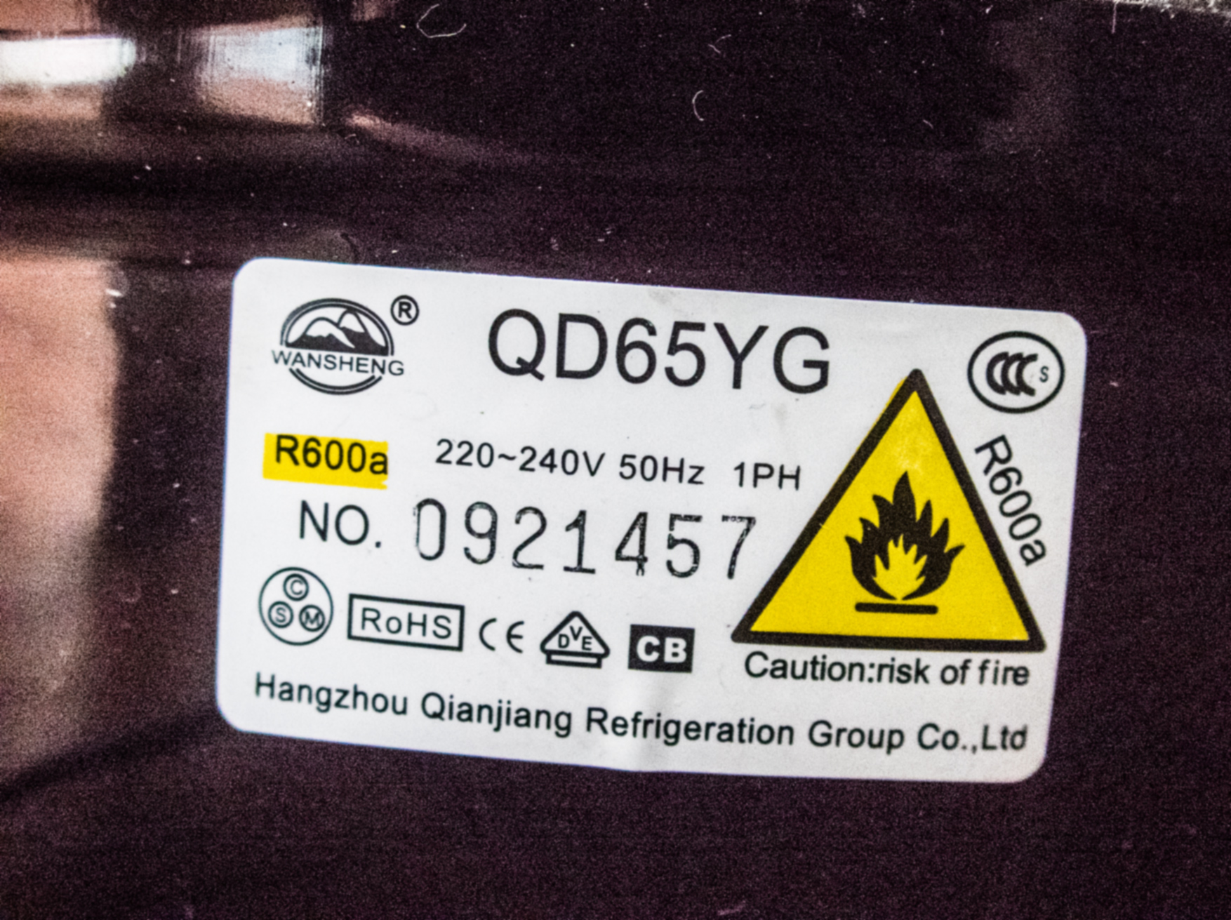 Value plate of a small freezer made in China